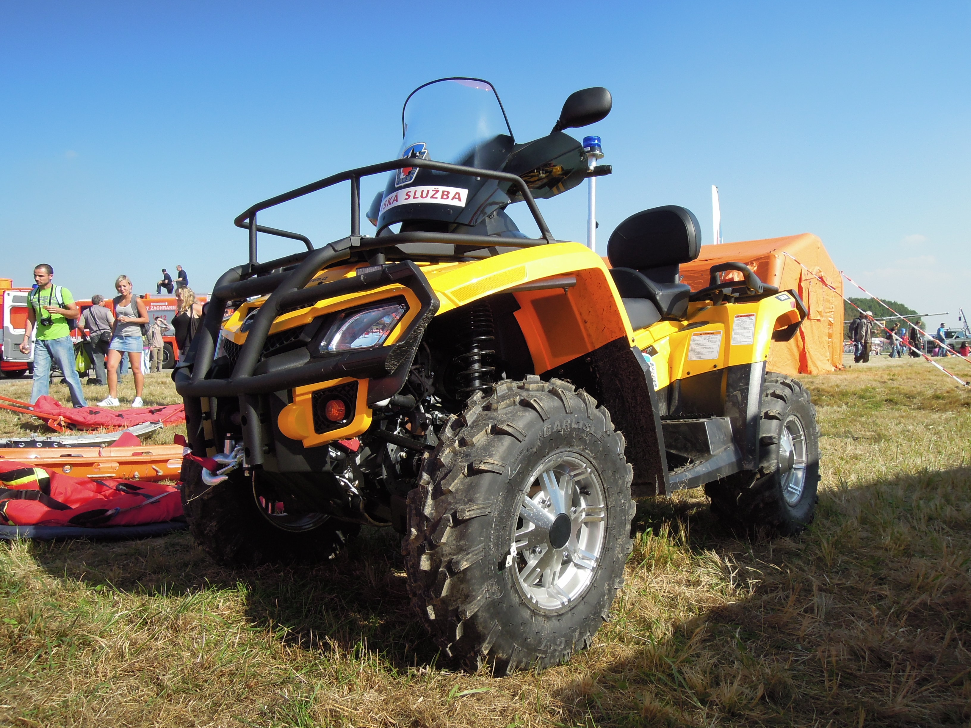 All-terrain vehicle of Mountain rescue in the Czech Republic